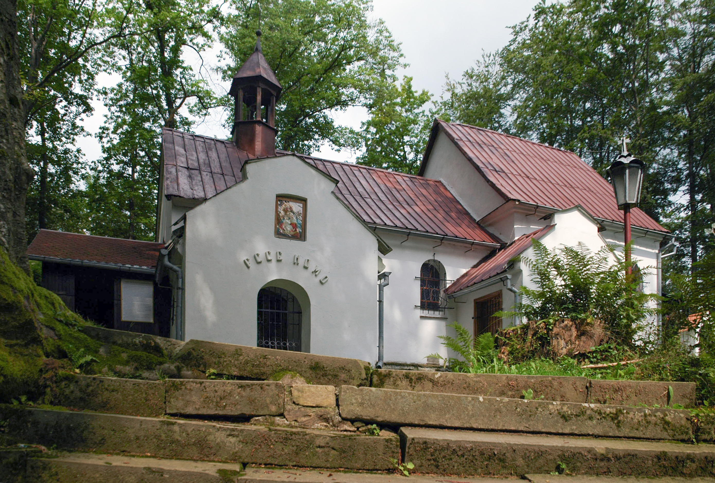 Radochów, Poland near Lądek-Zdrój – calvary chapel on Cierniak hill